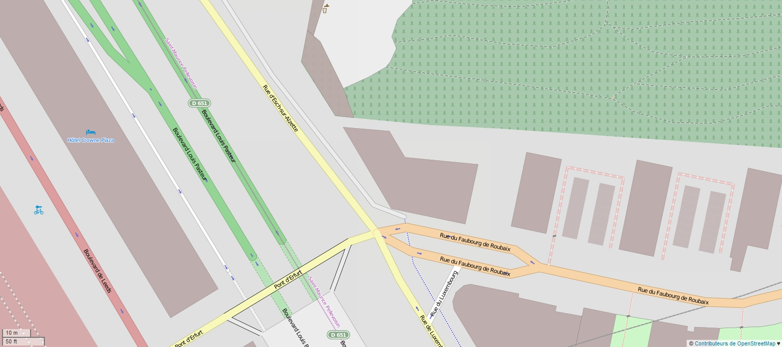 Euravenir This map may be incomplete, and may contain errors. Don't rely solely on it for navigation.